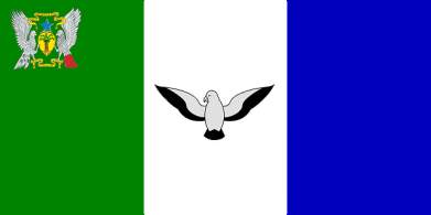 Flag of Principe province